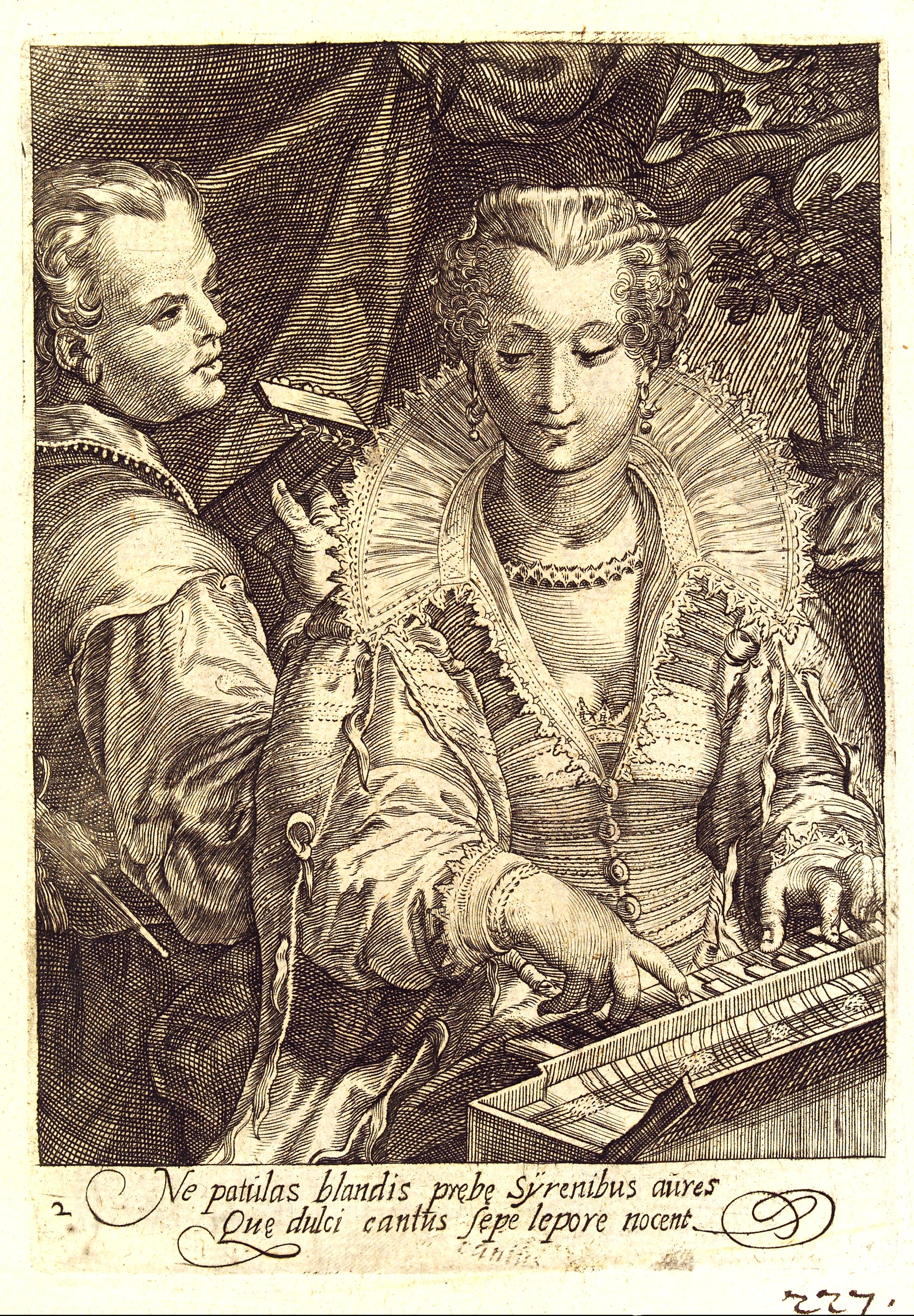 "Hearing" - Second of a set of 5 engravings depicting the Senses